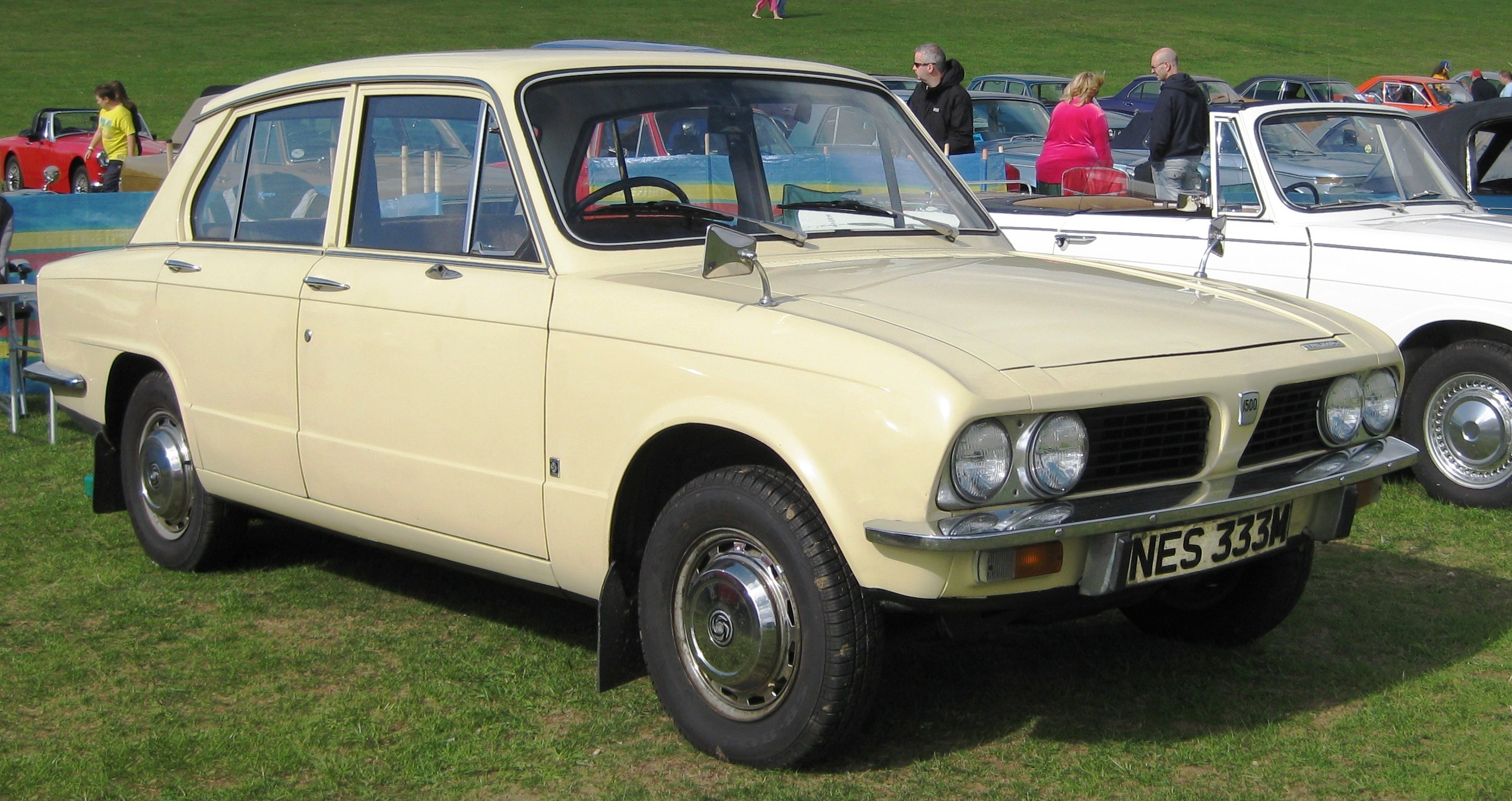 Triumph 1500 TC. This car was produced shortly after the front wheel drive Triumph 1500 was replaced by the rear wheel drive Triumph 1500 TC.